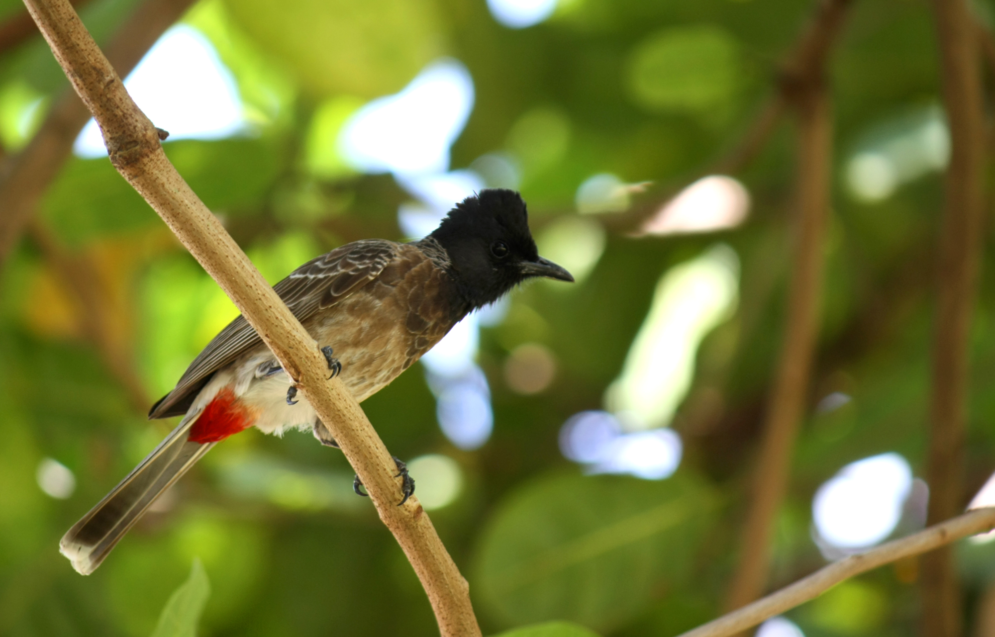 Red-vented Bulbul (Pycnonotus cafer). Photographed in Padiyathalawa (Ampara district) Sri Lanka.